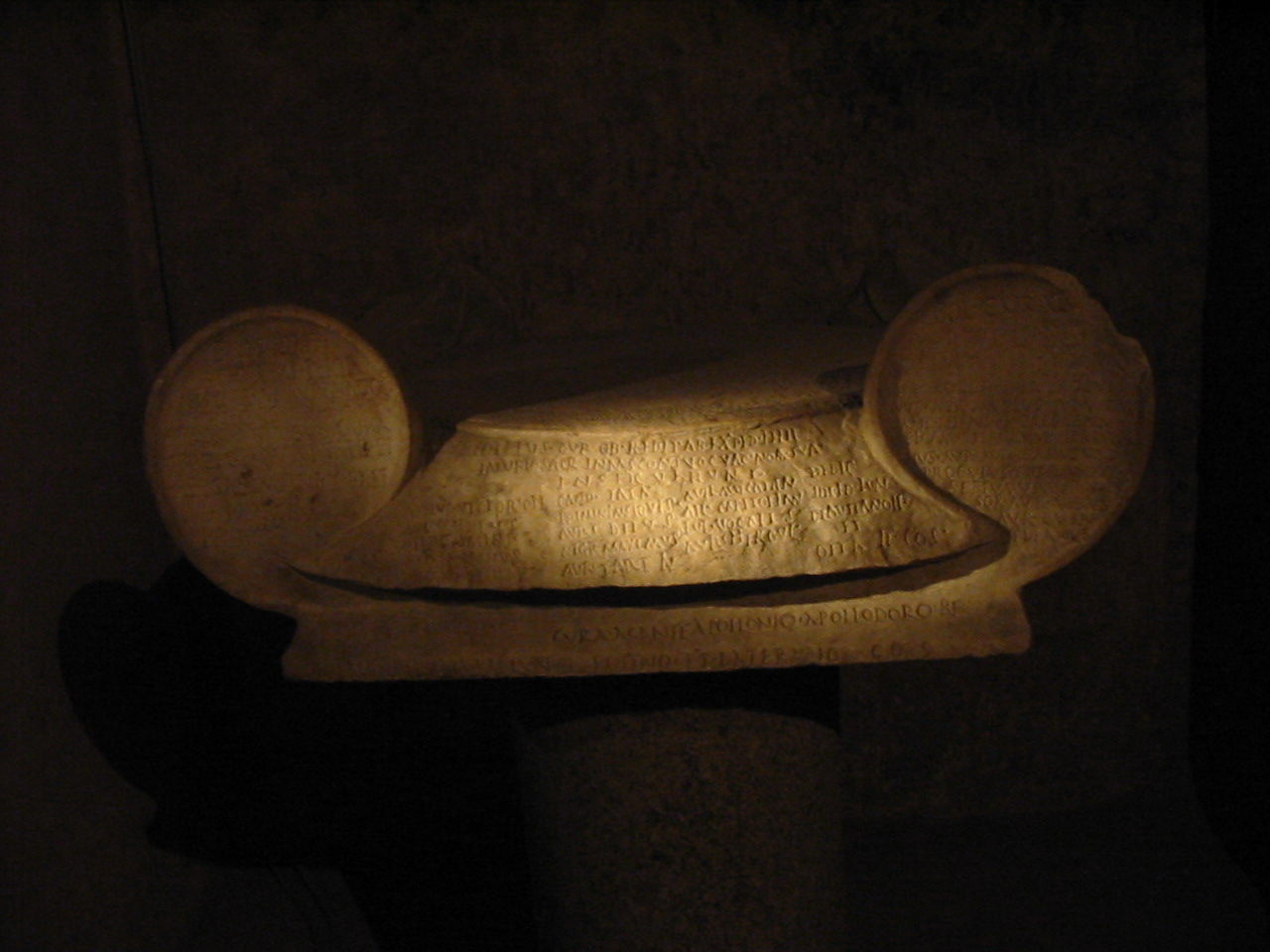 Two inscriptions carved on an ionic capital and dedicated by the collegium curatorum, an association of grooms (curatores) of the Imperial cavalry bodyguard.